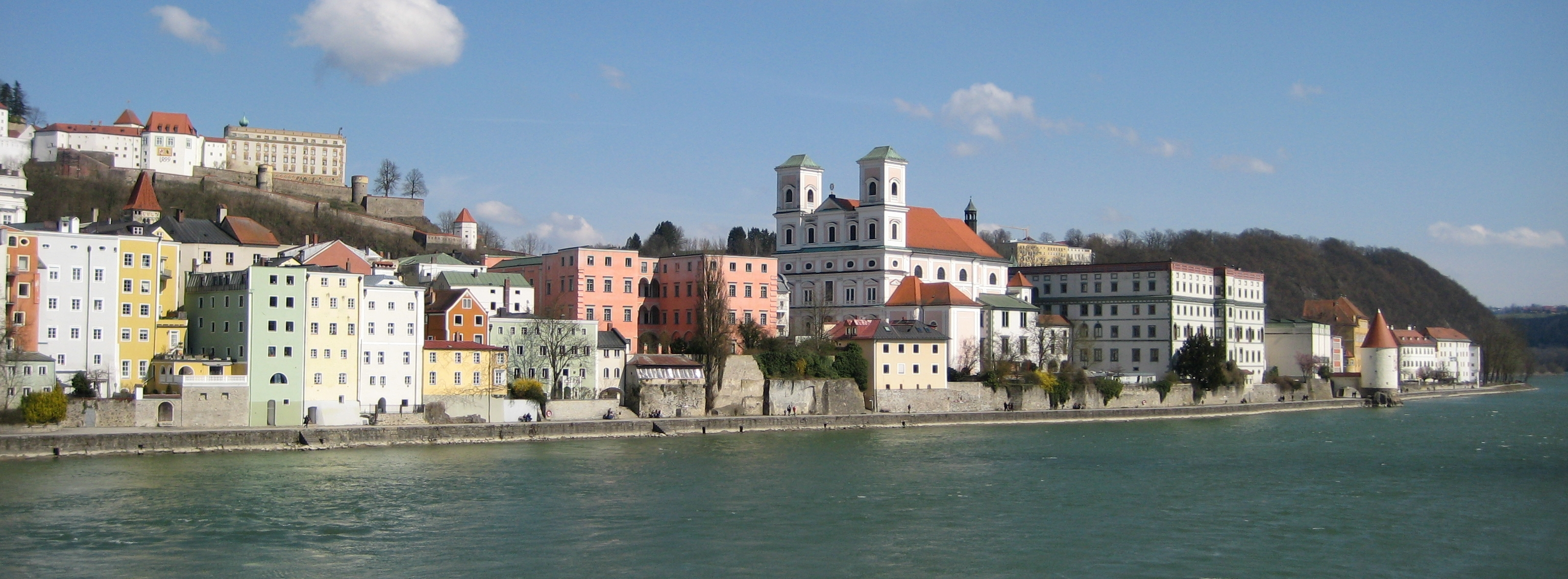 Passau, Inn